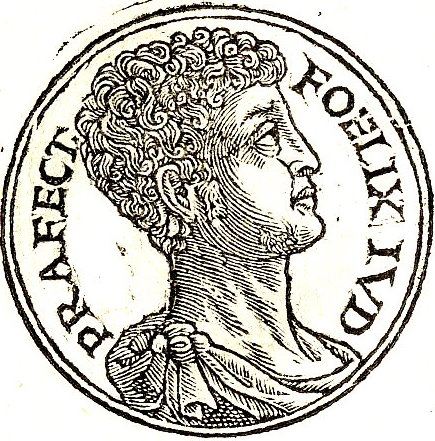 Antonius Felix was the Roman procurator of Iudaea Province 52-58, in succession to Ventidius Cumanus.